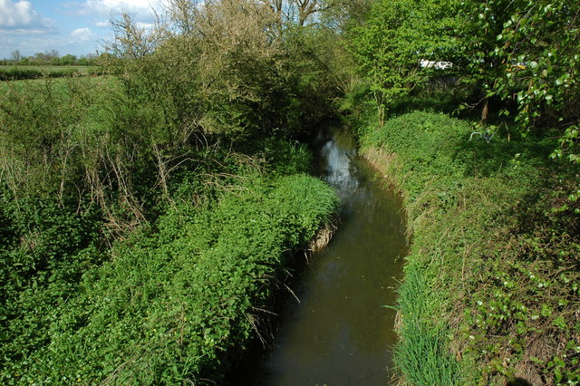 Piddle Brook The amusingly named Piddle Brook flowing through Naunton Beauchamp.